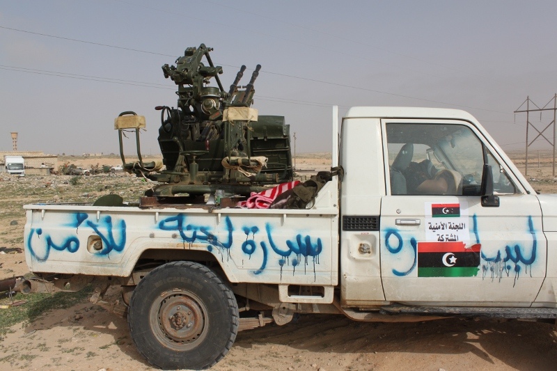 At the main checkpoint near the strategic oil town of Brega, men with what appeared to be better equipment and gear than their untrained comrades began to assemble. They wore emblems indicating their position as engineers or paratroopers and said they were defected "special forces" from Benghazi who were awaiting orders. Despite their more impressive appearance, they still seemed to lack the kind of discipline one might see in Western militaries, or perhaps even Gaddafi's own forces. This truck says it is a "car of the committee for security."